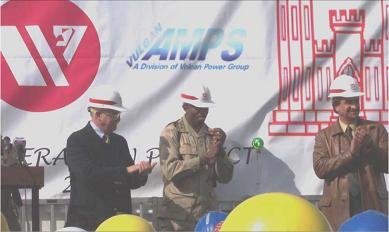 Aiham Alsammarae, Minister of Electricity (Iraq), opens Baiji Power Plant